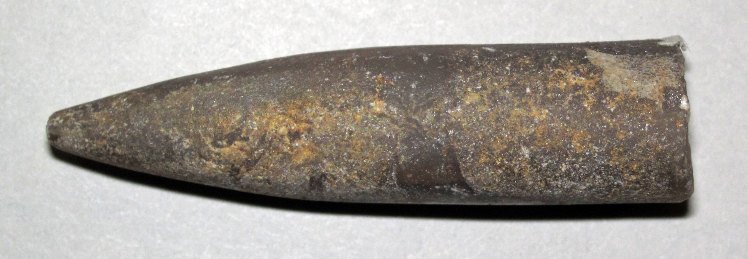 Pachyteuthis densus (Meek & Hayden, 1858) - fossil belemnite from the Jurassic of Montana, USA. (~4.05 centimeters long) Belemnites are an extinct group of marine organisms. They were squids that had a solid, calcareous, bullet-shaped, internal skeleton called a guard. Classification: Animalia, Mollusca, Cephalopoda, Coleoidea, Belemnitida Stratigraphy: Swift Formation, upper Callovian STage to Oxfordian Stage, uppermost Middle Jurassic to lower Upper Jurassic Locality: unrecorded/undisclosed site in Carbon County, southern Montana, USA See info. at: and